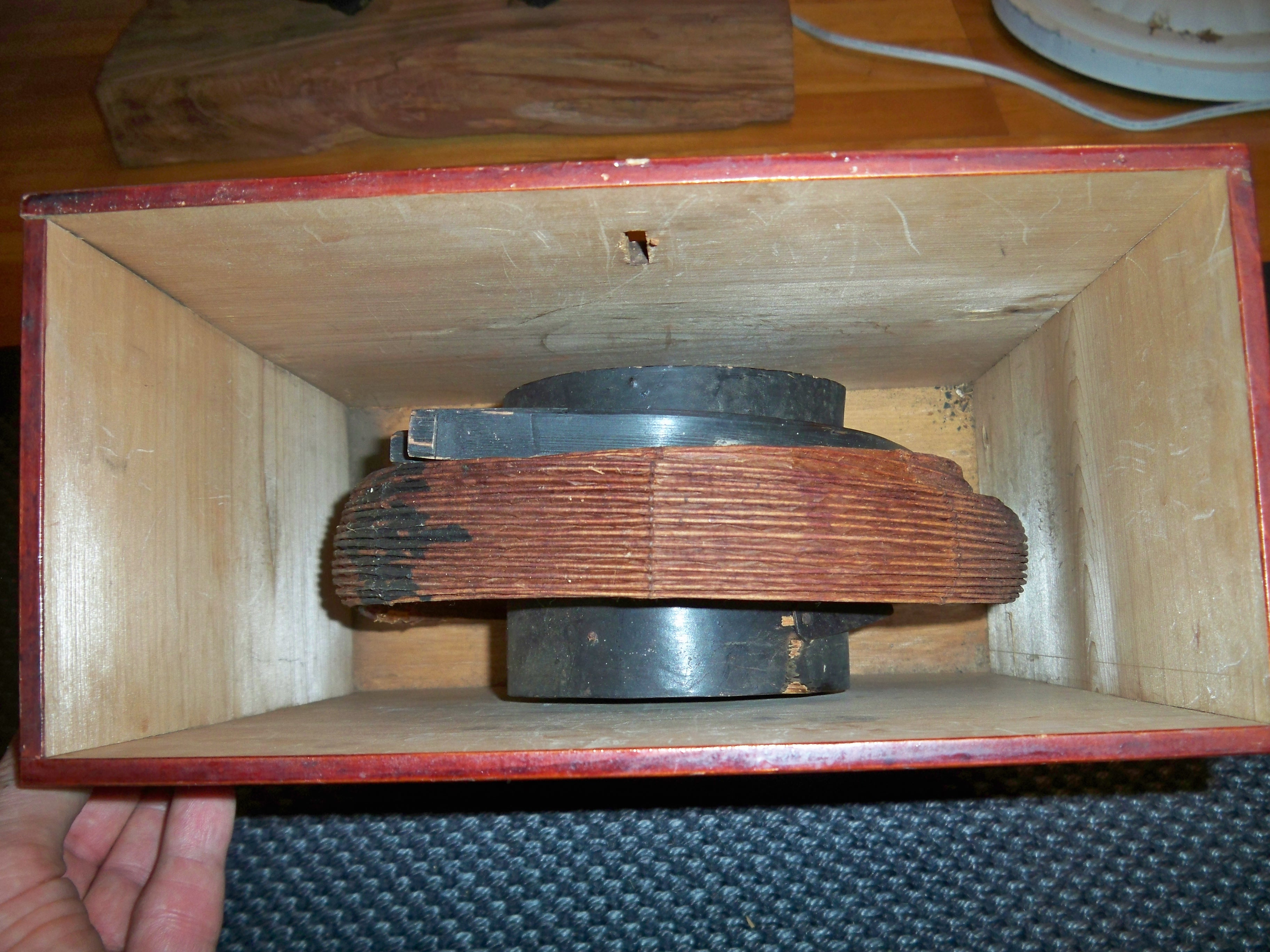 Bura-Chochin, collapsible bamboo and paper lantern constructed with a jabara (bellows) type of design.